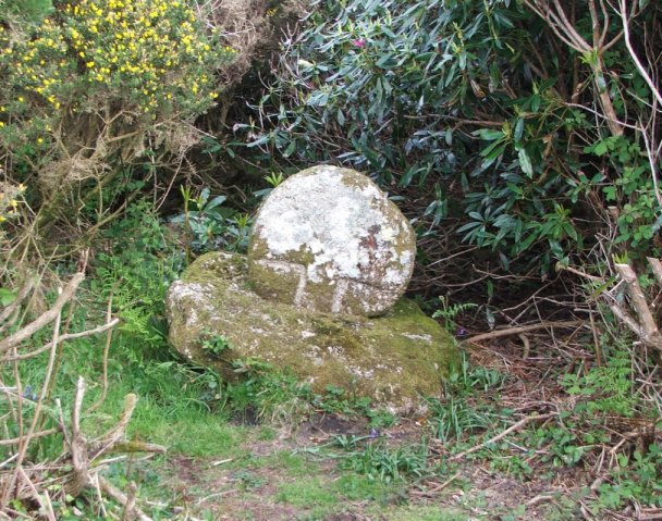 Trengwainton Cross Located on an obscure path through dense shrubbery, this cross head upon a stone base lies close by the route of an ancient trackway, some of which exists today as a public right of way.